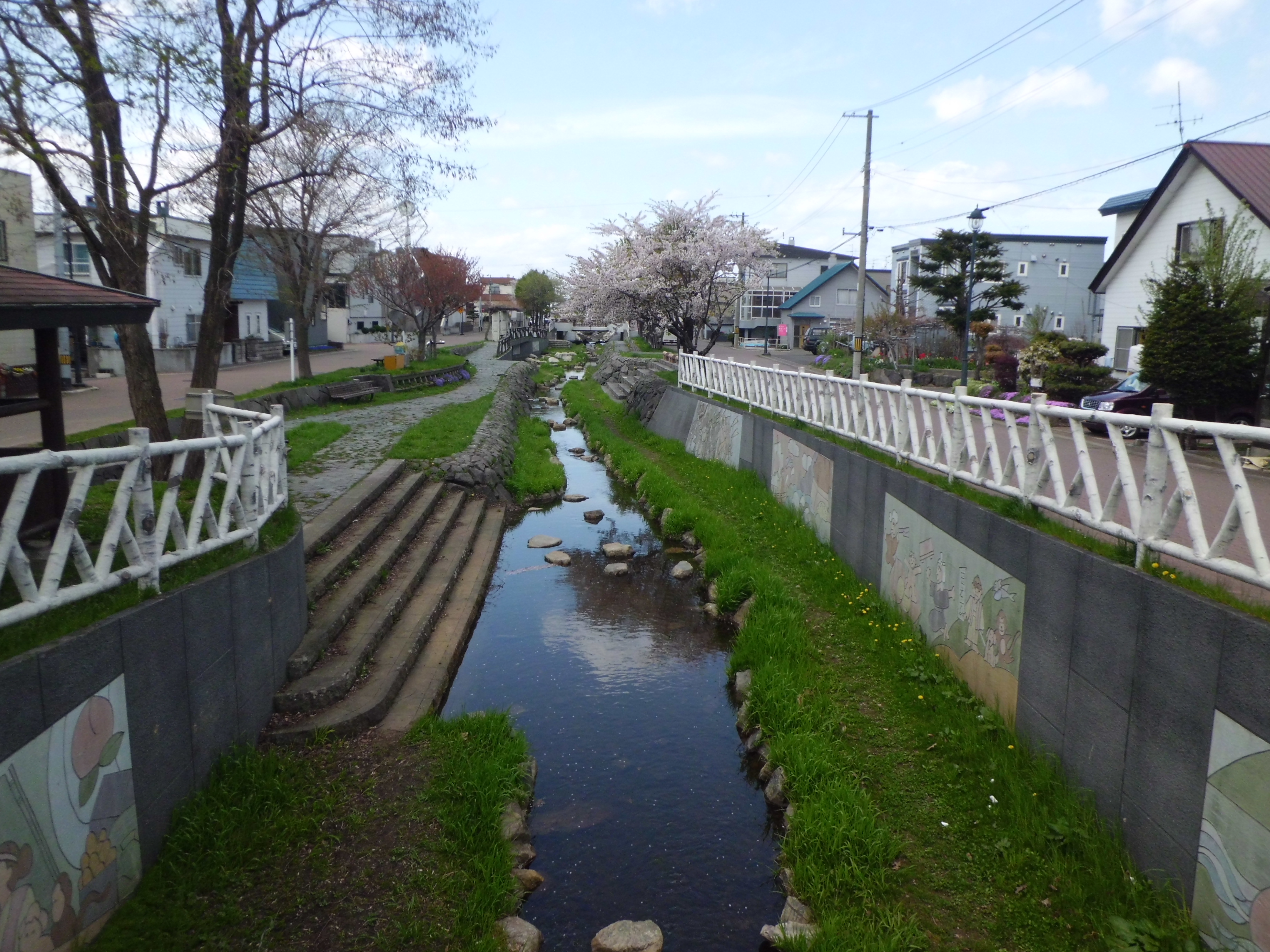 Yasuharu River in Shinkotoni, Kitaku, Sapporo city, Hokkaido. Looking northwest from Shinkotoni-dori Street.